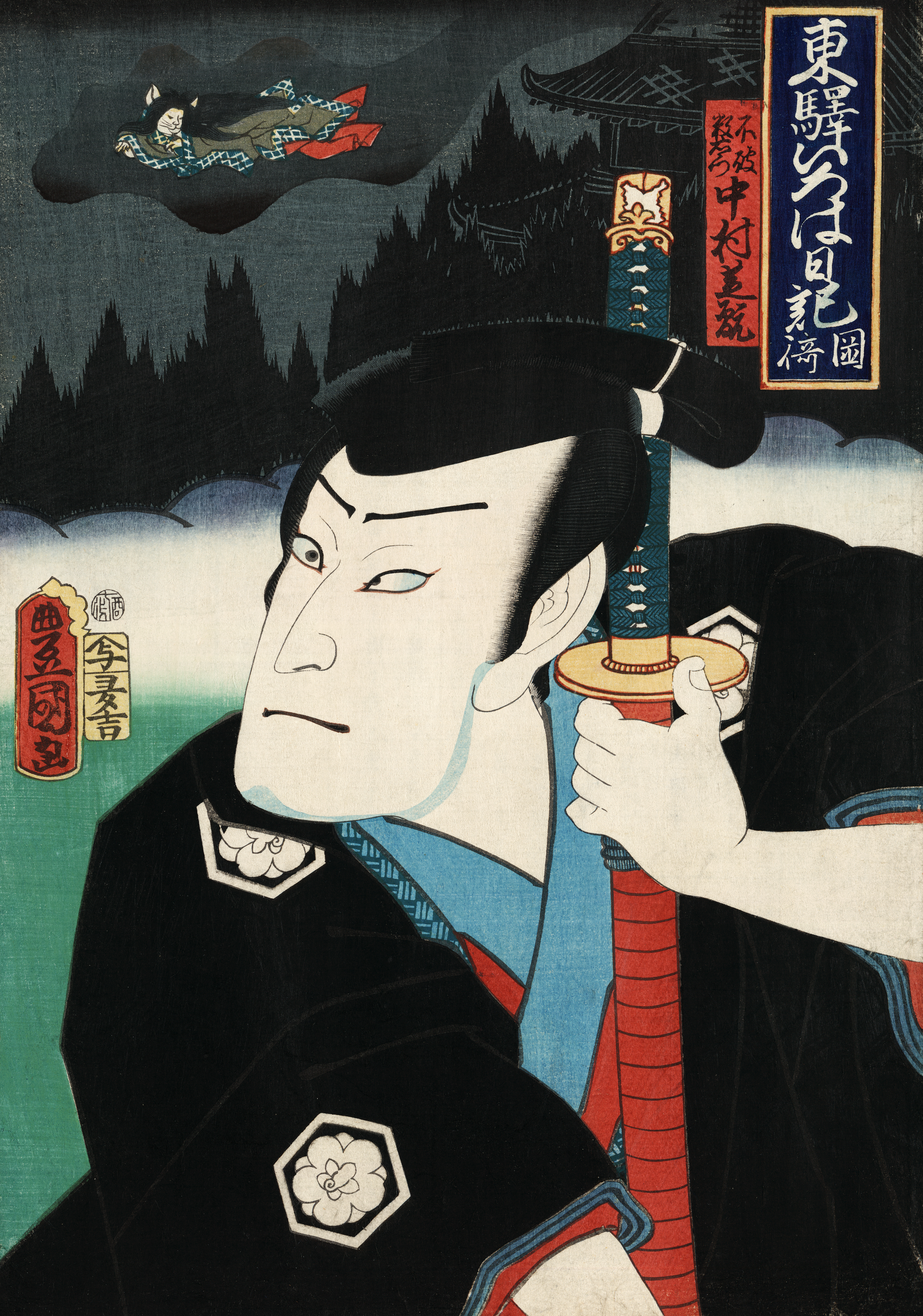 Woodblock print by Utagawa Kunisasda I, here signing 'Toyokuni ga’; series ’Iroha Diary of the Eastern Station’; the actor Nakamura Shikan IV in the role of Fuwa Kazuemon. Color woodcut (mounted on a scroll as part of 20 portraits of Kabuki actors in their roles). Publisher: Ōtaya Takichi.